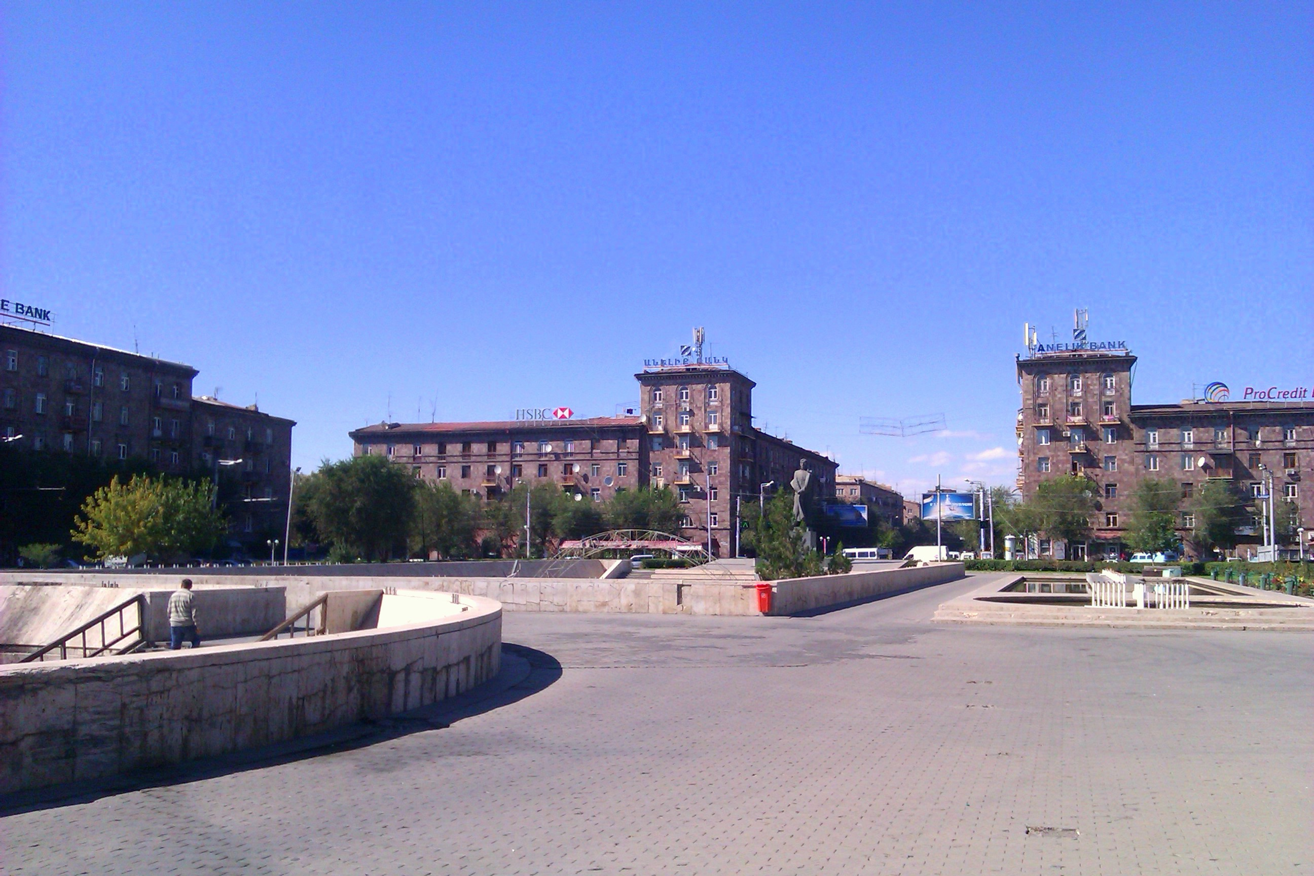 Garegin Nzhdeh square, Yerevan, Armenia.